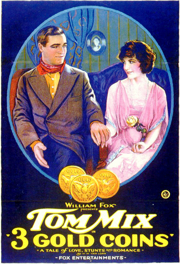 Poster for the American western film 3 Gold Coins (1920) with Tom Mix and Margaret Loomis.